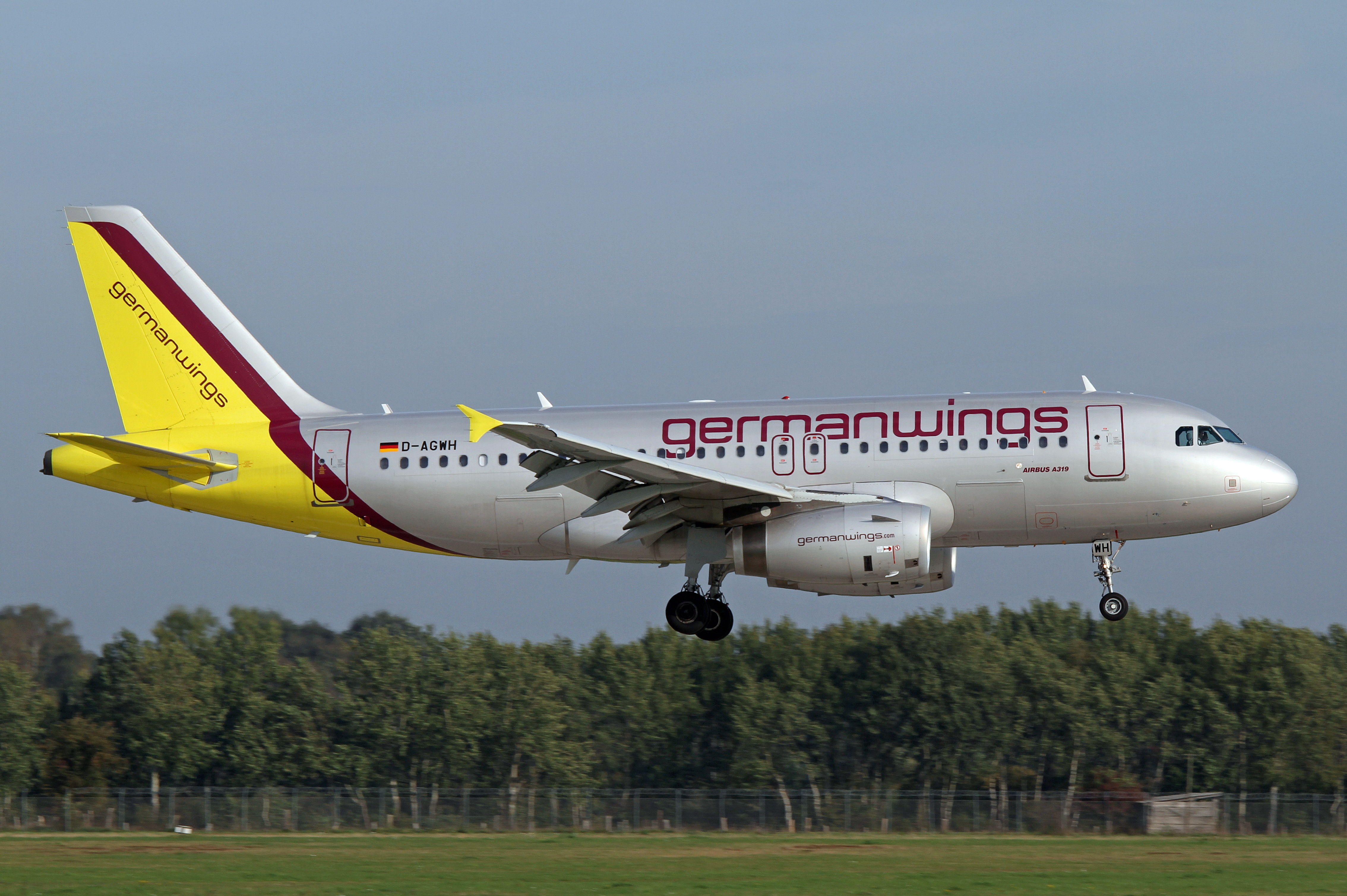 Airbus A319 Germanwings D-AGWH